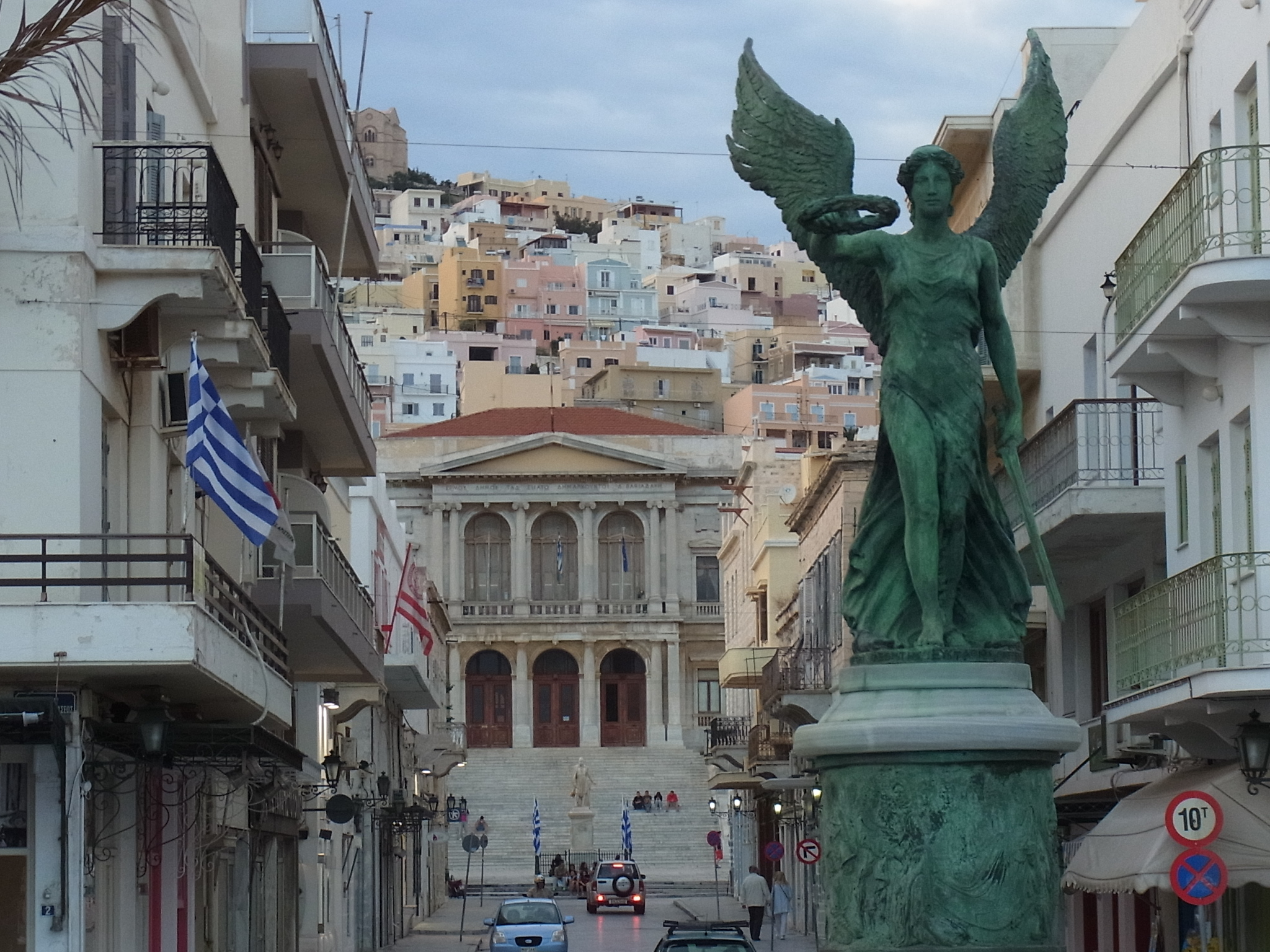 El. Venizelou, Ermoupoli